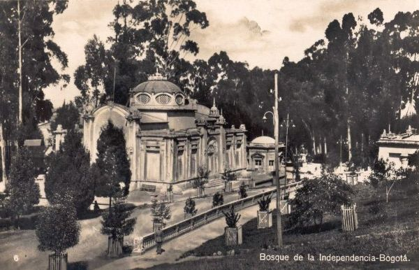 Pabellon